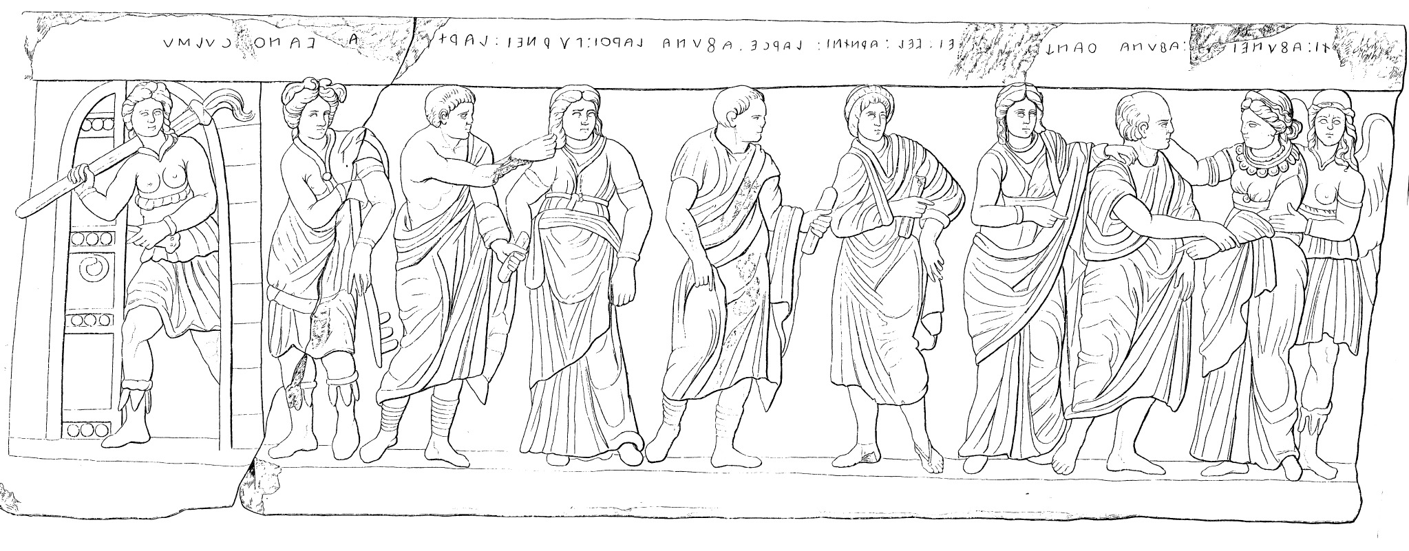 Stone sarcophagus of Hasti Afunei, from Chiusi. Palermo, Museo Archeologico Regionale. Third century BCE.